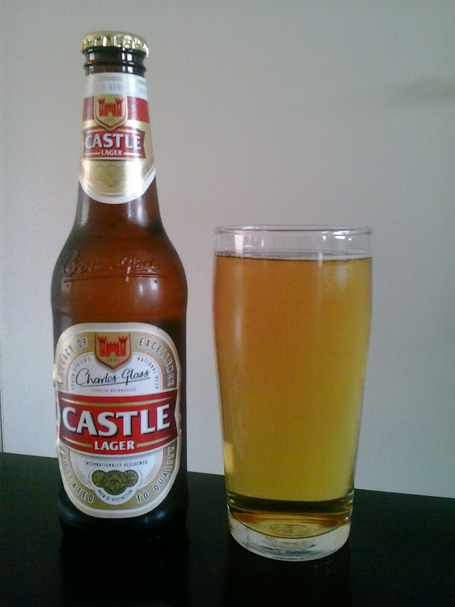 A bottle of Castle Lager and its contents in a accompanying glass